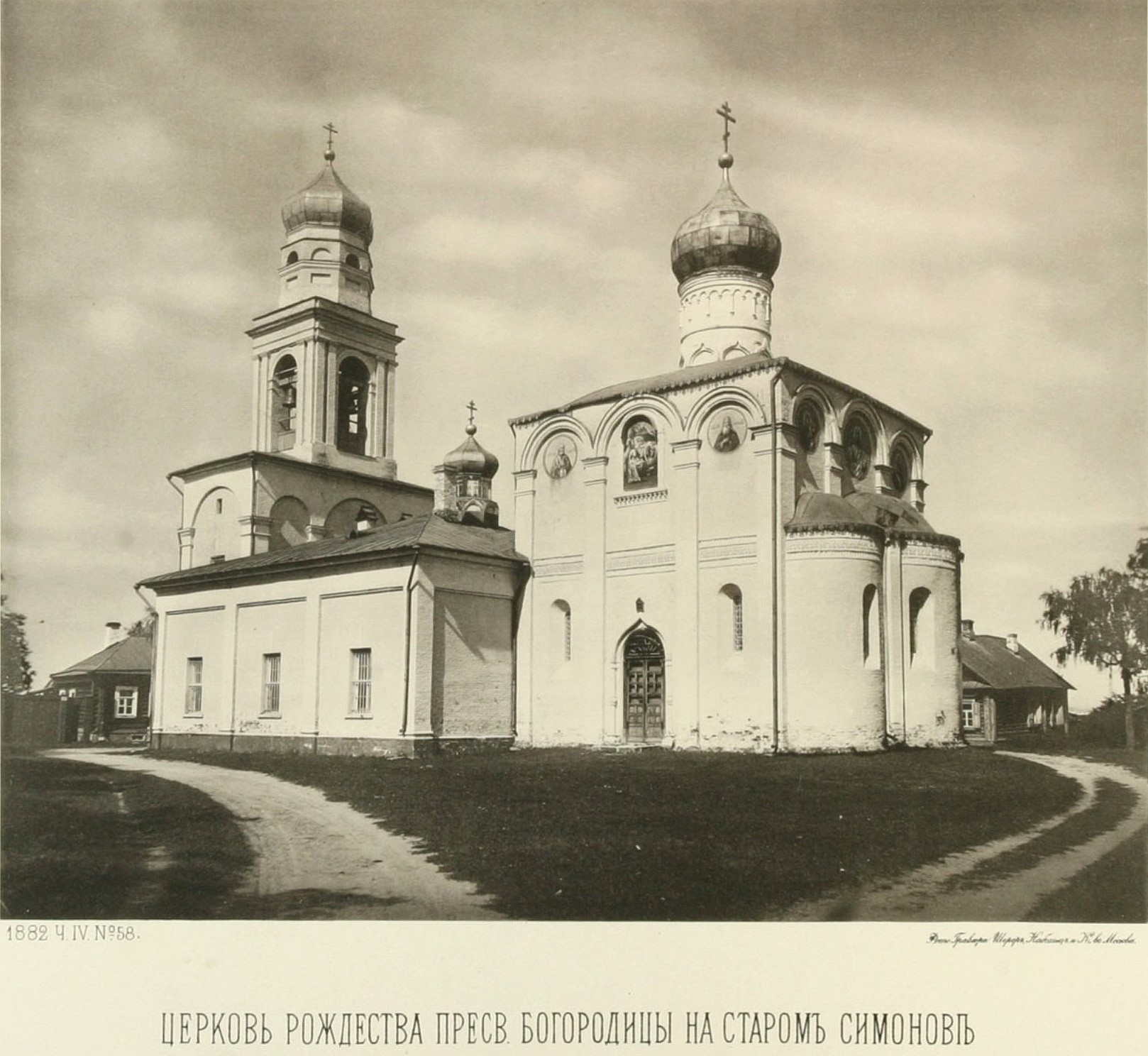 Moscow. Church of Rozhdestvo Bogoroditsy (Birth of Virgin) in Old Simonov Monastery